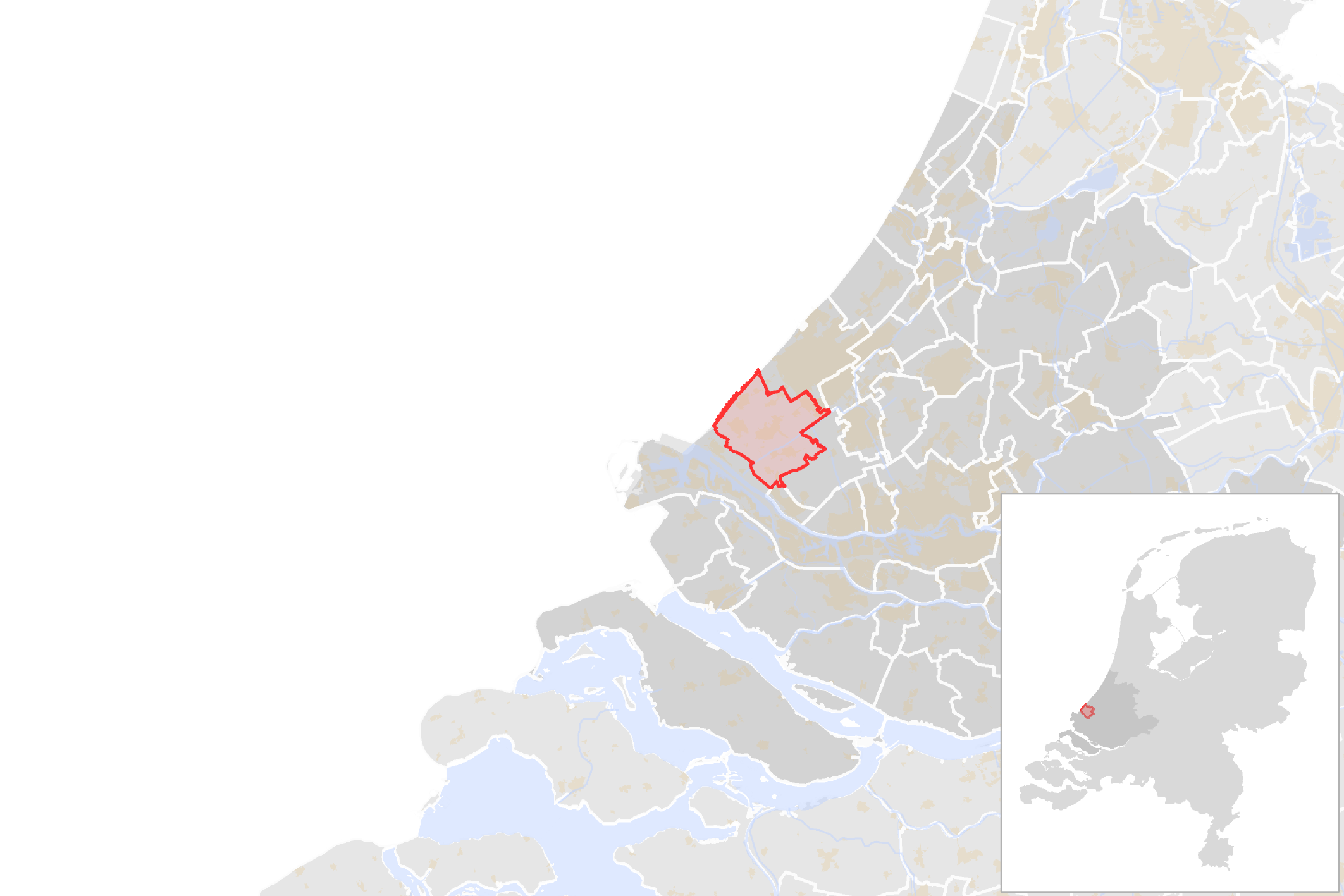 Locator map showing municipality boundary of one of the 390 Dutch municipalities (as of 2016)